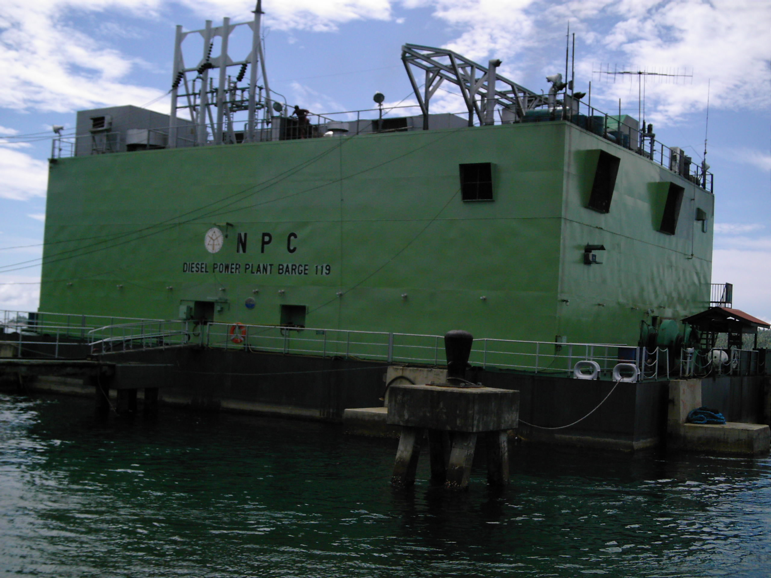 photograph of NAPOCOR power barge No. 119, docked in Isabela City, Basilan